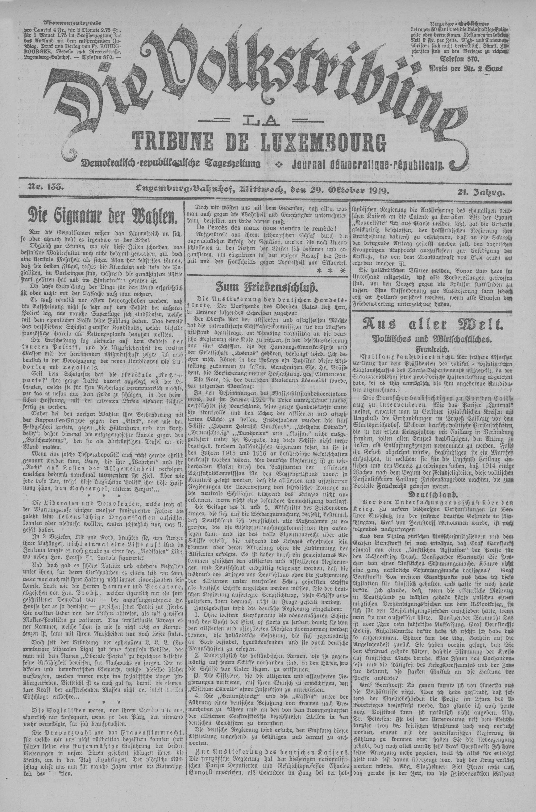 Front page of the Luxembourg newspaper Die Volkstribüne ("The People's Tribune") of 29 October 1919 with an analysis of the 1919 Luxembourg general election.